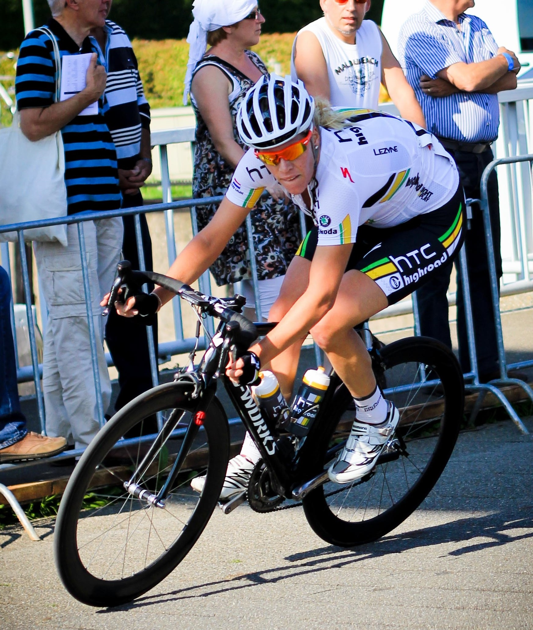 2011 Draai van de Kaai, Ellen van Dijk